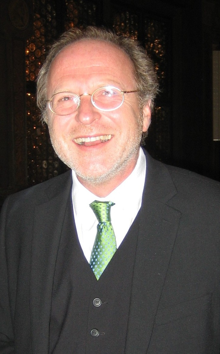 Stefan Baier, Organist, Cembalist und Musikpädagoge